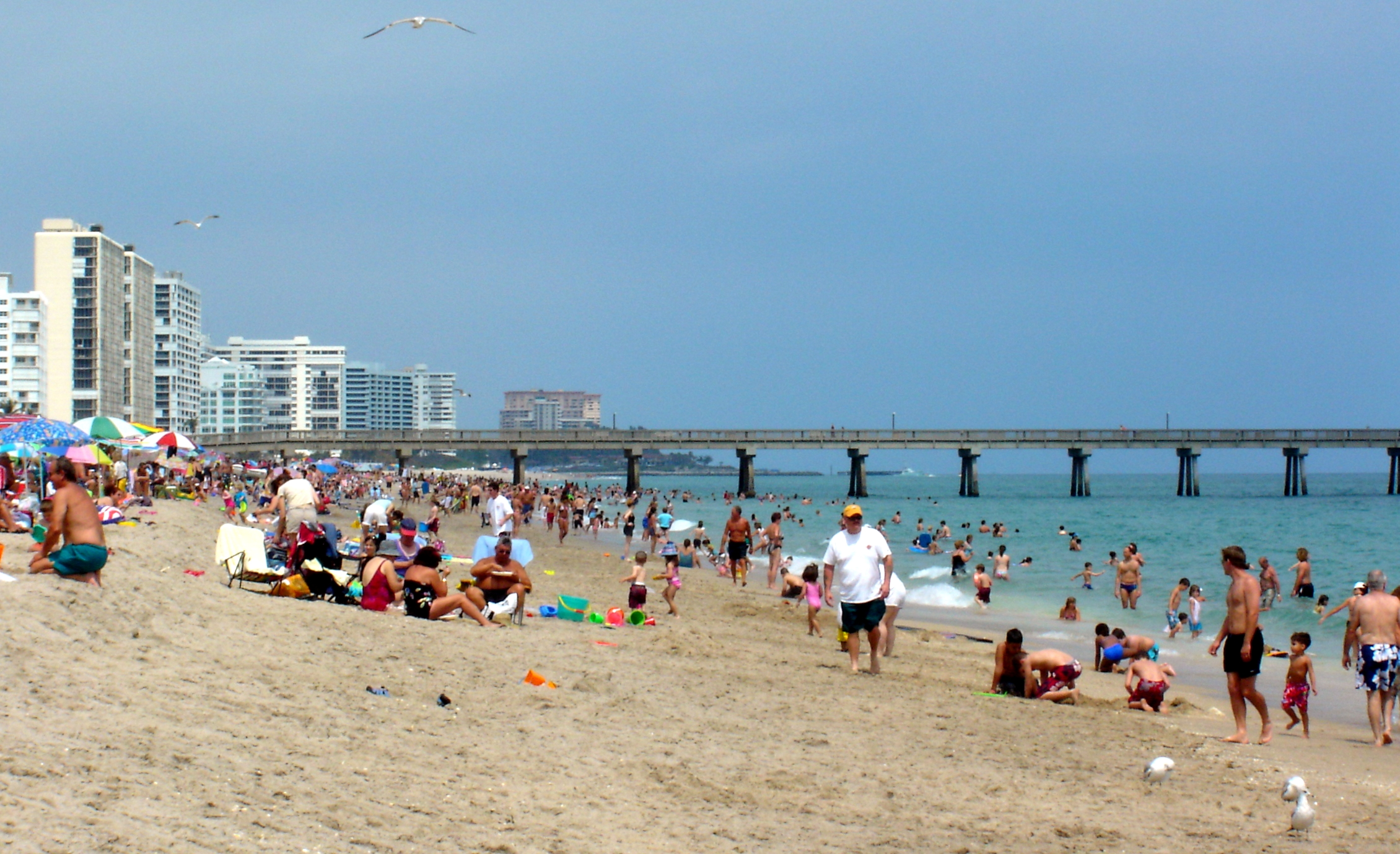 Beachgoers surrounding the Deerfield Beach Pier in Deerfield Beach, with Boca Raton visible in the background.